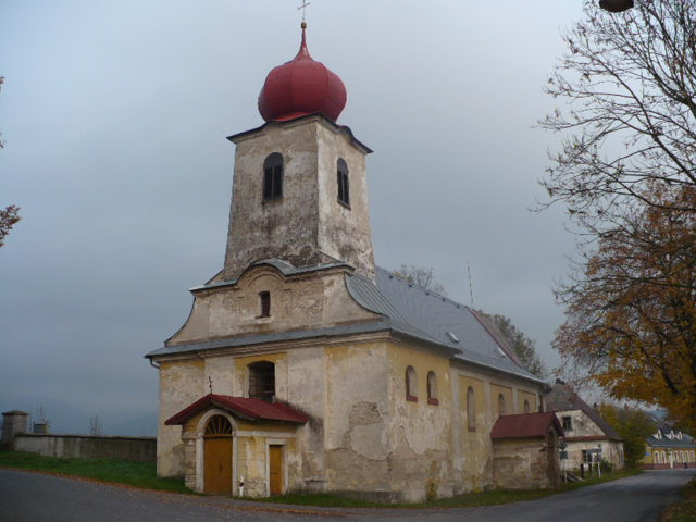 Church in Červený Potok (Králíky, Ústí nad Orlicí District, Czech Republic)